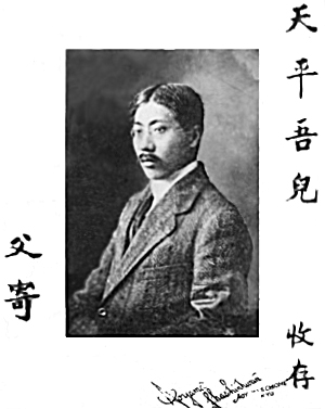 Fan Guangqi (1882-1914)